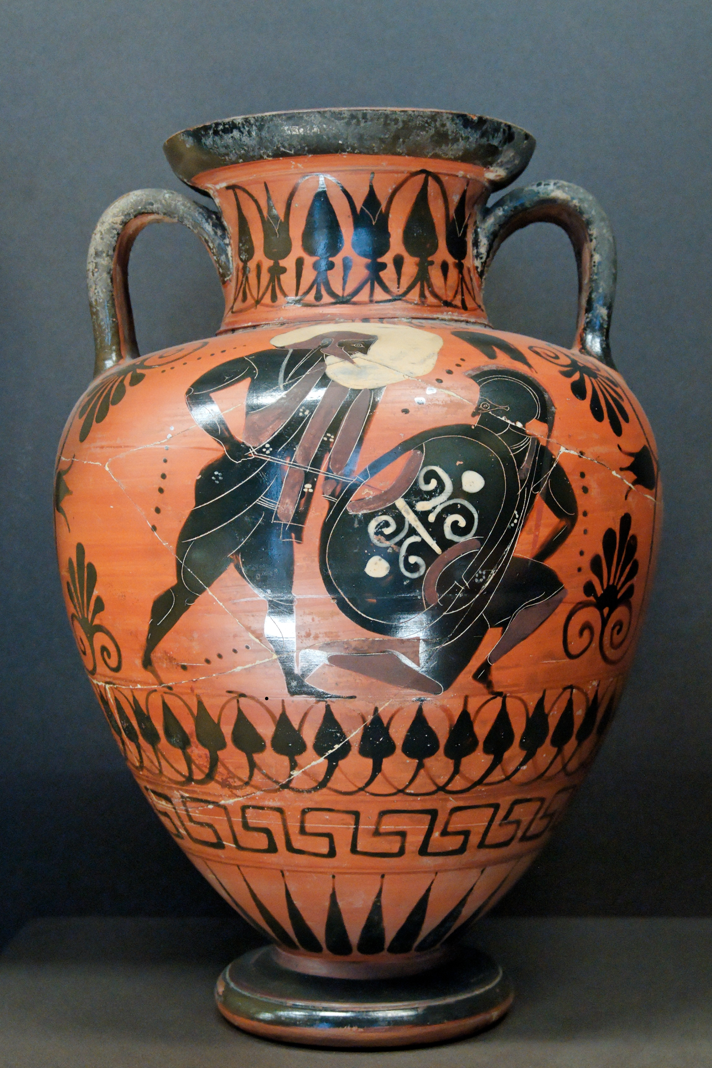 Poseidon fighting the Giant Polybotes during the Gigatomachy. Side A from an Attic black-figure neck amphora, ca. 540 BC–530 BC.